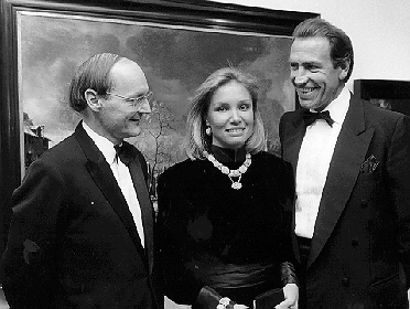 View of the 1987 edition of art fair 'Pictura' in Eurohal, Maastricht, Netherlands. Organizer and art dealer Rob Noortman and his wife welcome mayor Philippe Houben. The fair of 1987 was the last one to be held in Eurohal; from 1988 it was held at MECC with a new name: The European Fine Art Fair (TEFAF).